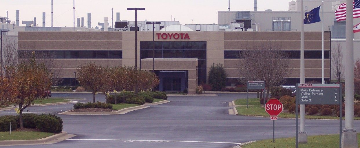 Taken by Kurt Weber (User:Kmweber) on November 5, 2006